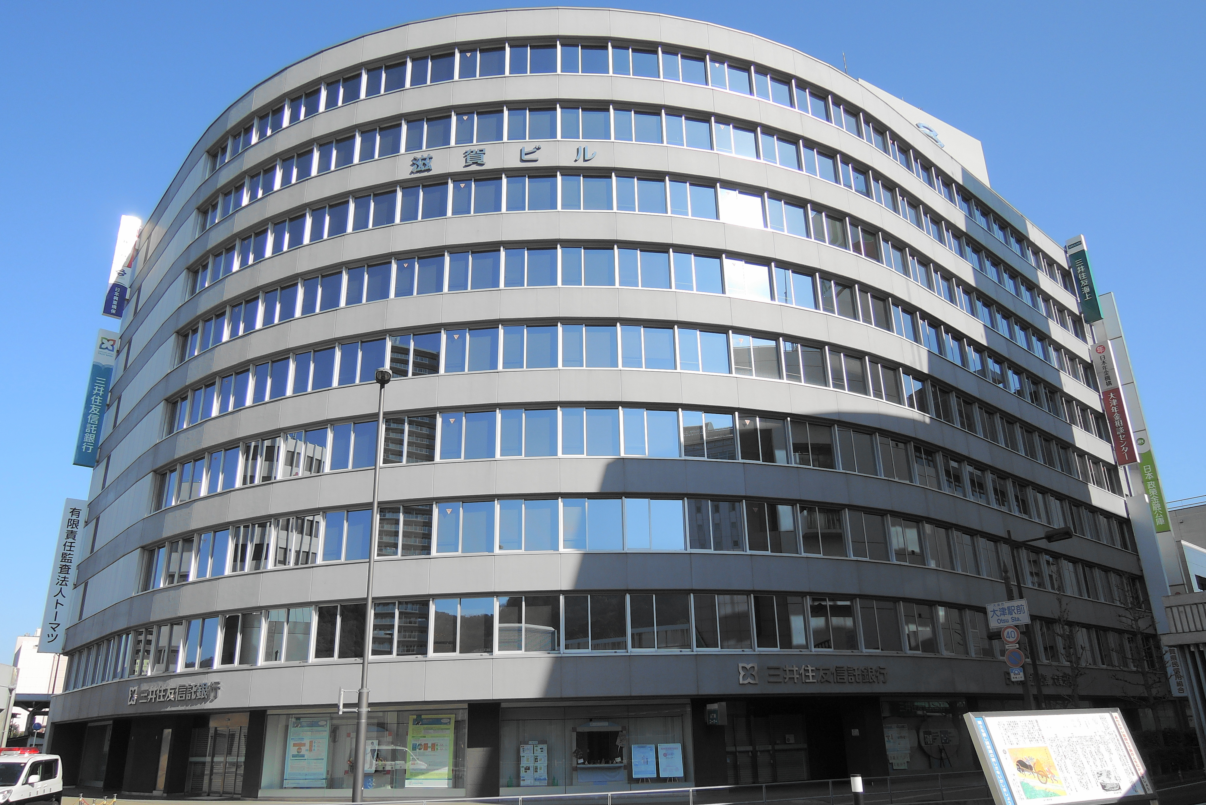 Shiga building,Shiga prefecture, Japan